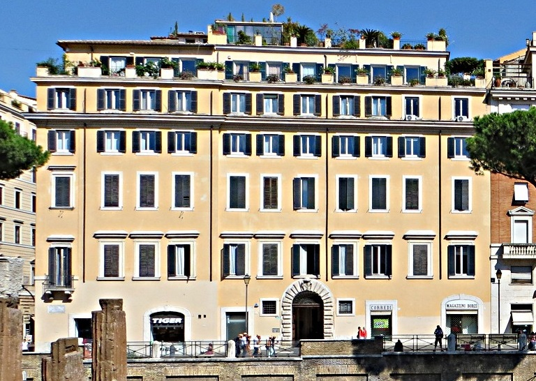 Palazzo Nobili Vitelleschi (Largo di Torre Argentina)